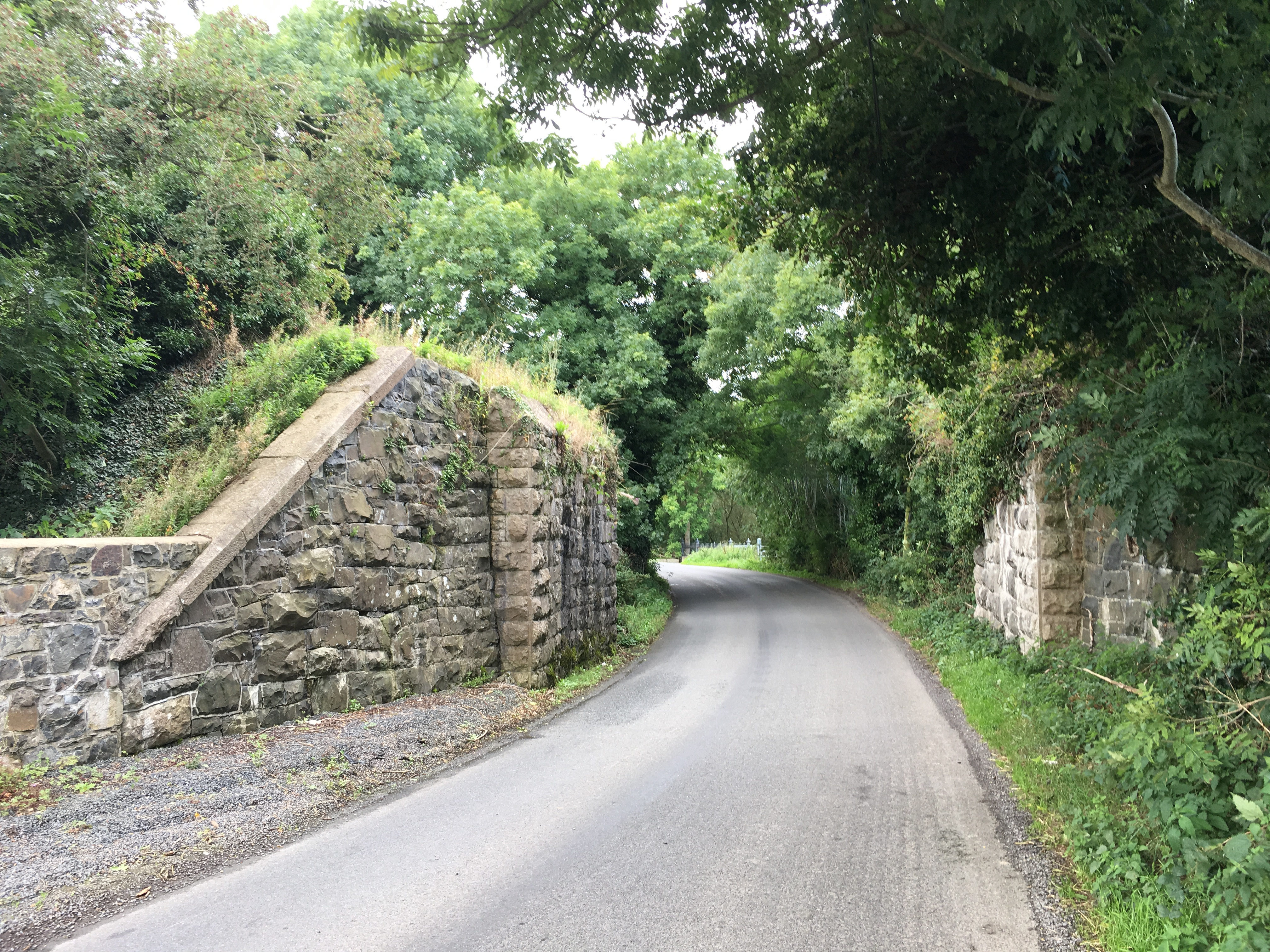 Old railway abutments across the Mullafernaghan Road.